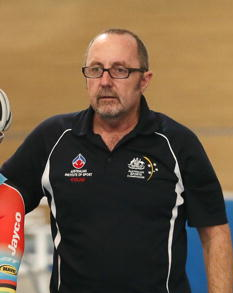 AIS Track Cycling Coach Gary West with Olympic Champion Anna Meares in 2013